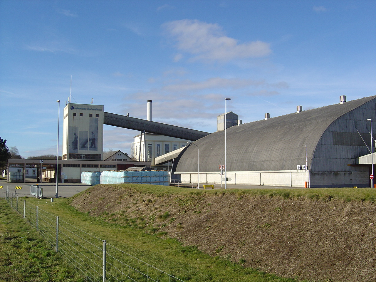 the Salt evaporation pond Riburg in Rheinfelden near Möhlin, Switzerland